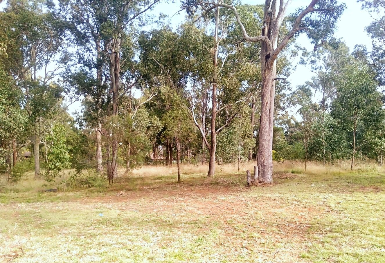 Typical grassy woodlands in a nature reserve in Sydney.